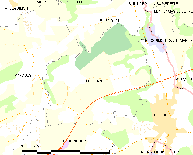 Map of French municipality Morienne